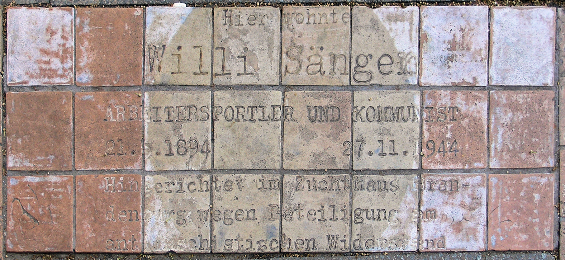 Memorial plaque, Willi Sänger, Oppelner Straße 45, Berlin-Kreuzberg, Germany Koordinate:52°29′59″N 13°26′29″E / 52.49972°N 13.44139°E